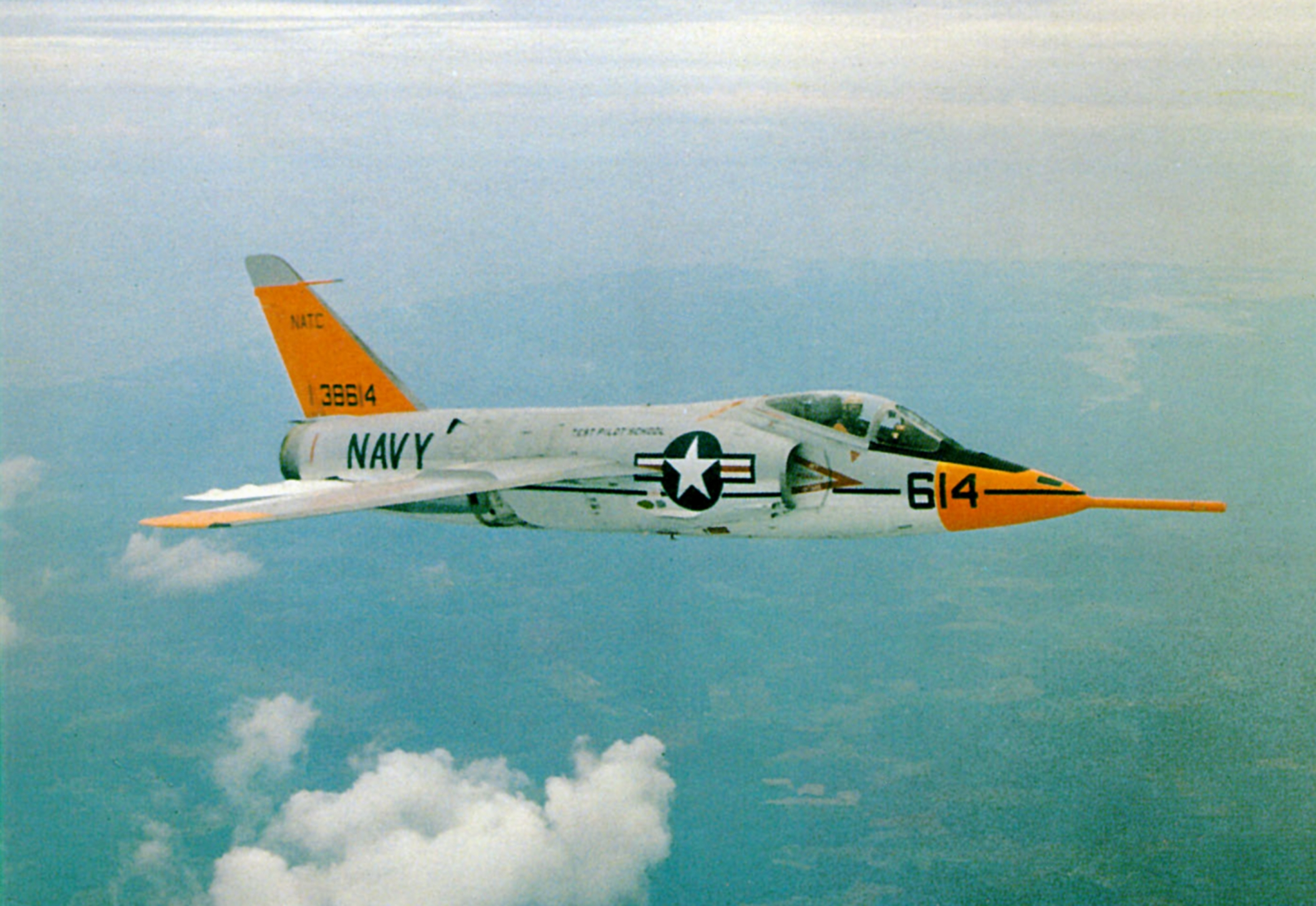 A U.S. Navy Grumman F11F-1 Tiger fighter (BuNo 138614) from the Naval Air Test Center at Naval Air Station Patuxent River, Maryland (USA), in flight.